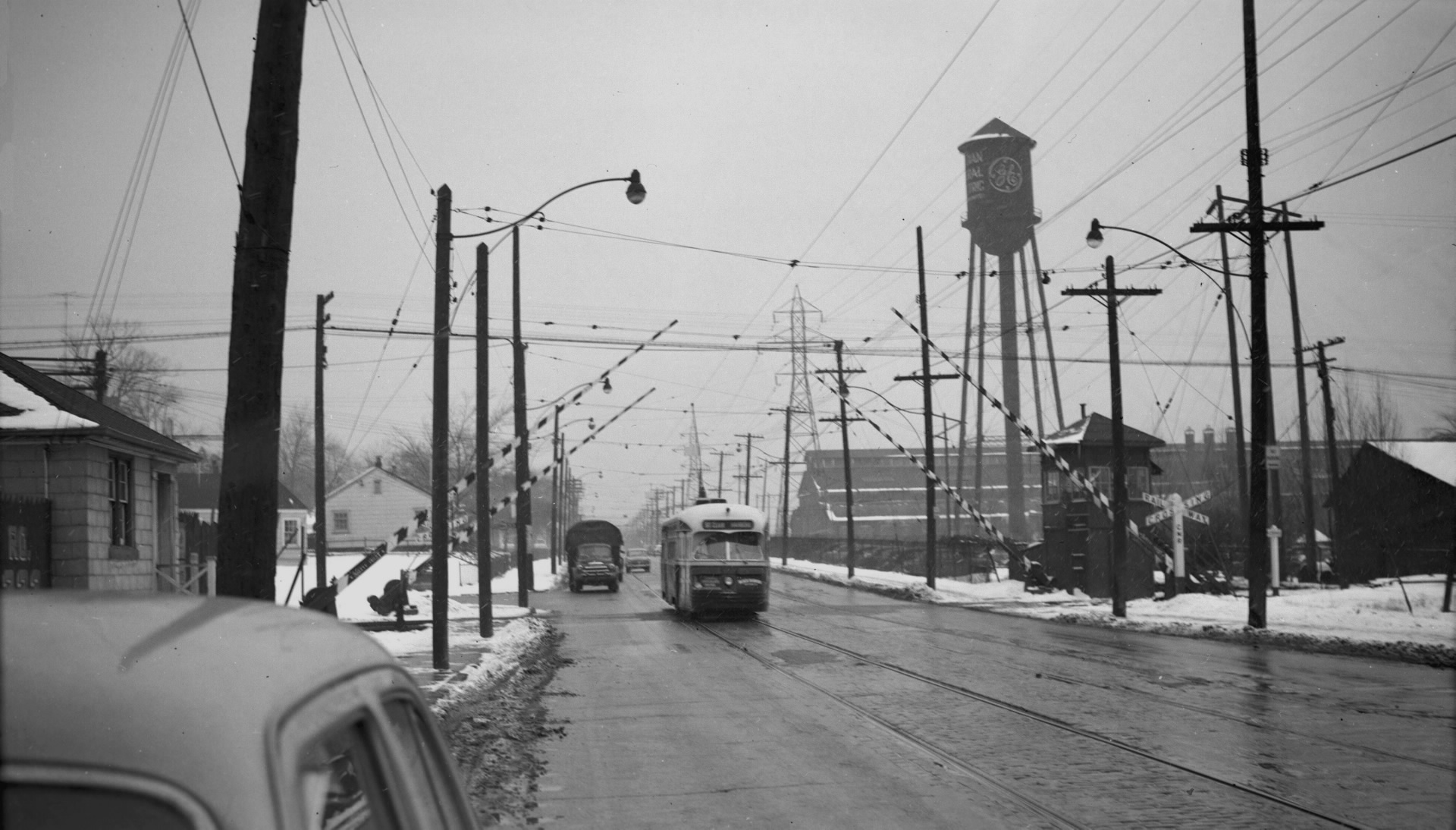 Harbord streetcar westbound on Davenport Road at C.N.R. crossing approaching Wiltshire Avenue